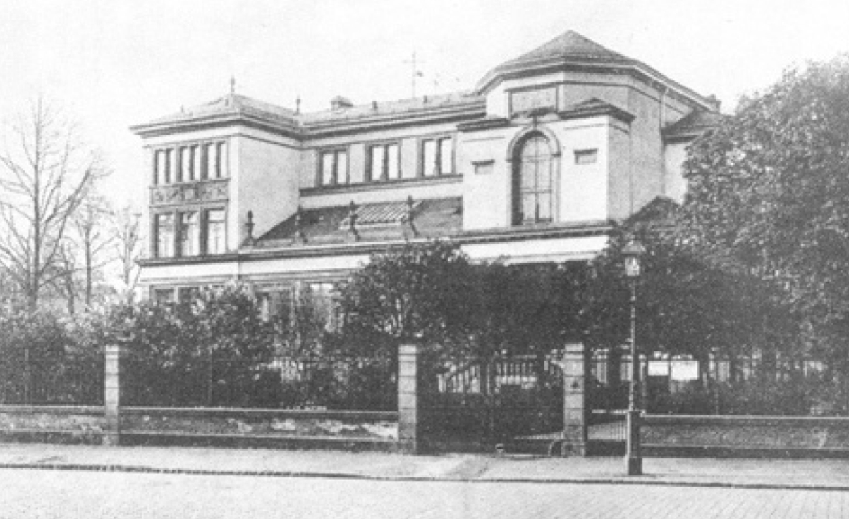 Picture of about 1900: Frontal view of Clementine Kinderhospital in Frankfurt am Main, Hesse, Germany, founded by Louise Freifrau von Rothschild (1820–1894) to honour her belated daughter Clementine.